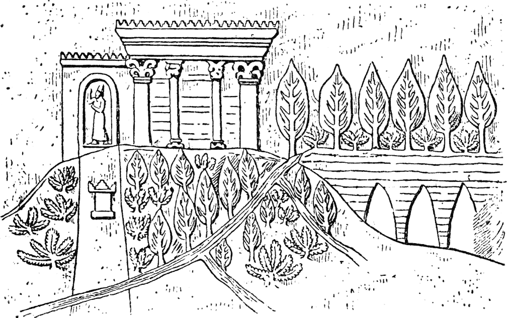 Depiction of the Hanging Gardens. Irrigation on an artificial slope. Based on the Kuyunjik relief in the British Museum.